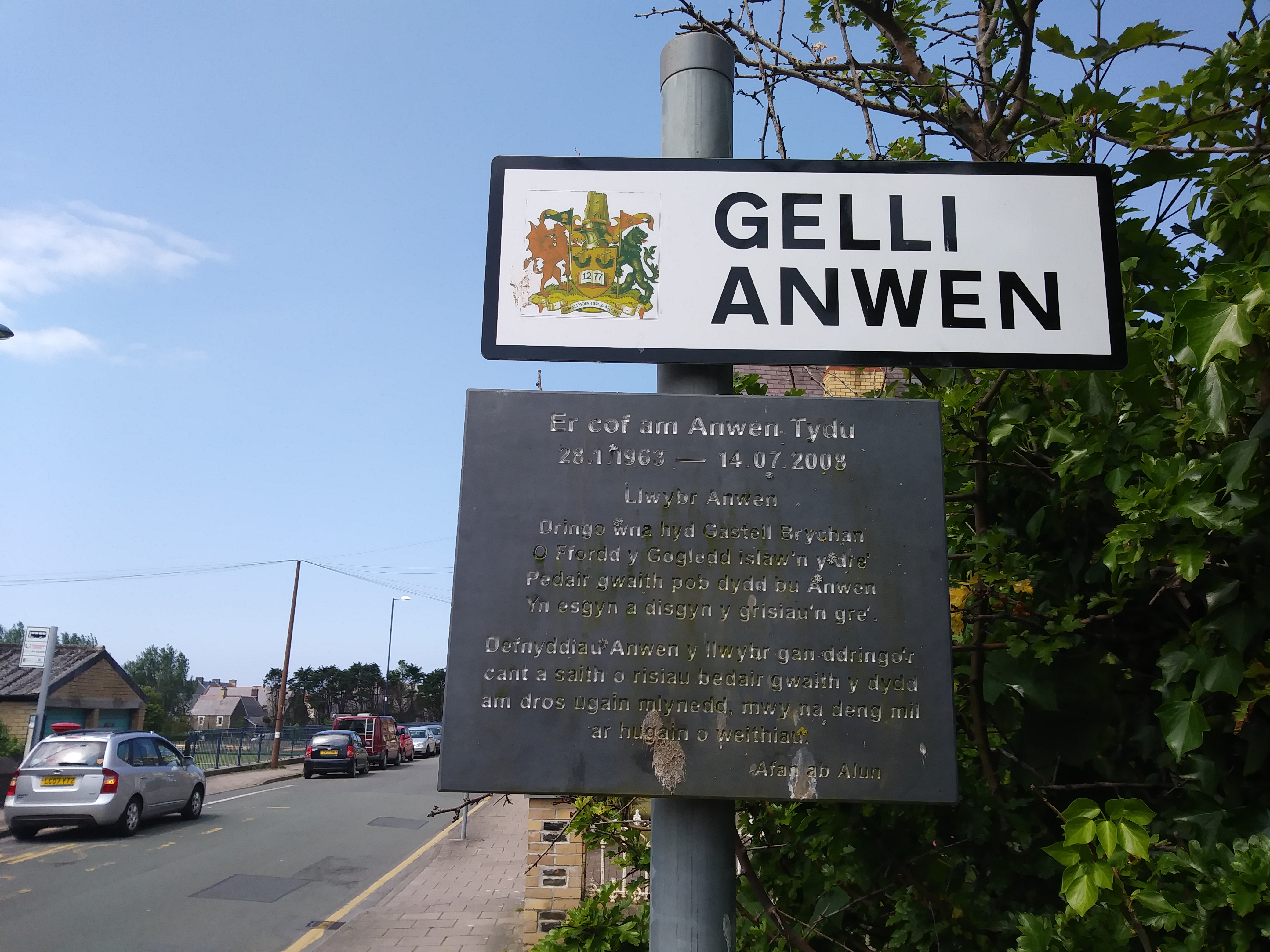 Gelli Anwen, North Rd, sign and englyn